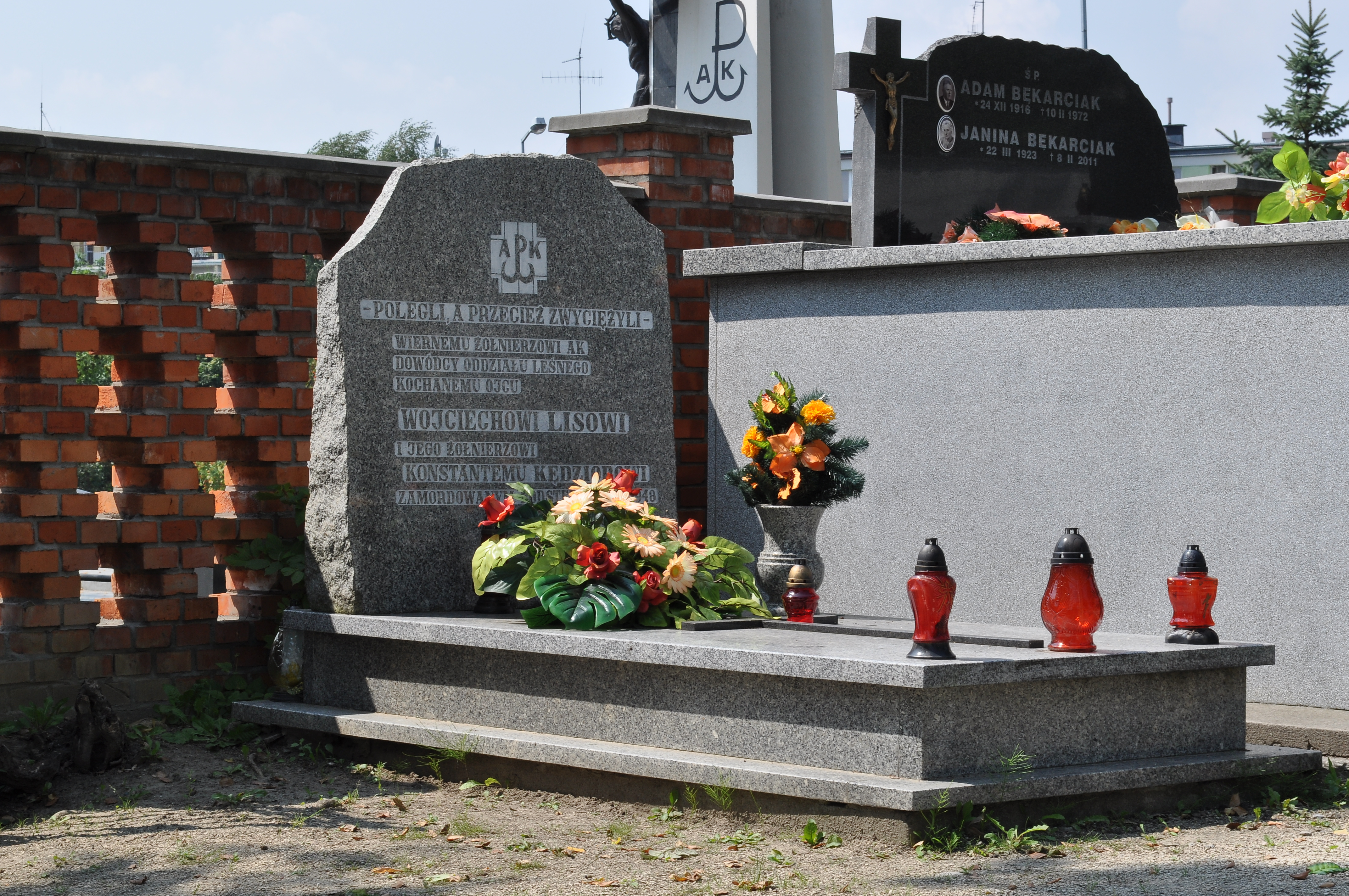 Parish cemetery in Mielec, the grave of Wojciech Lis (pseudonym Avenger), the commander of guerrilla group and his soldier Konstanty Kędzior